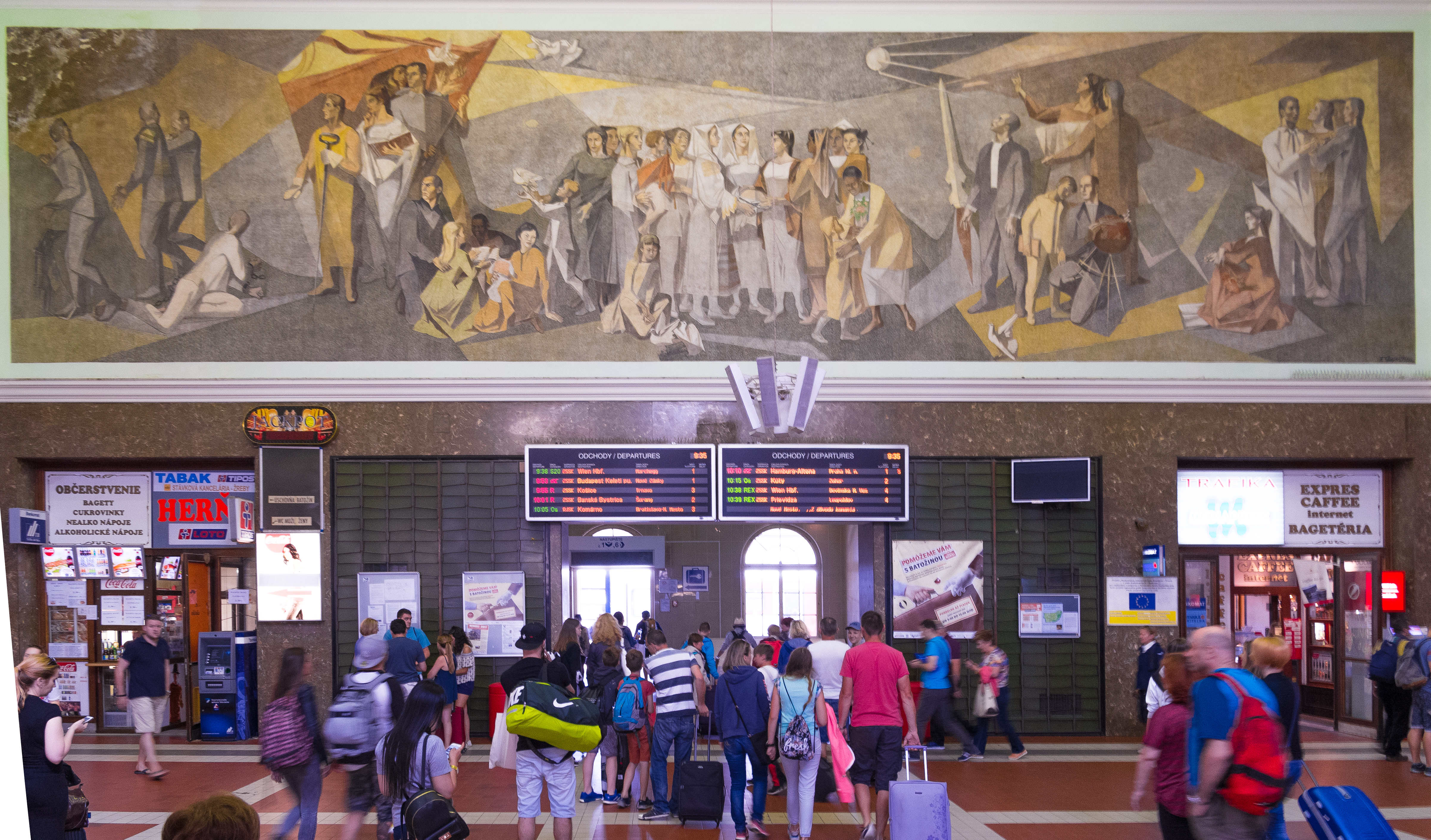 The large Socialist Realist fresco in Bratislava Railway Station painted in 1960 by František Gajdoš.